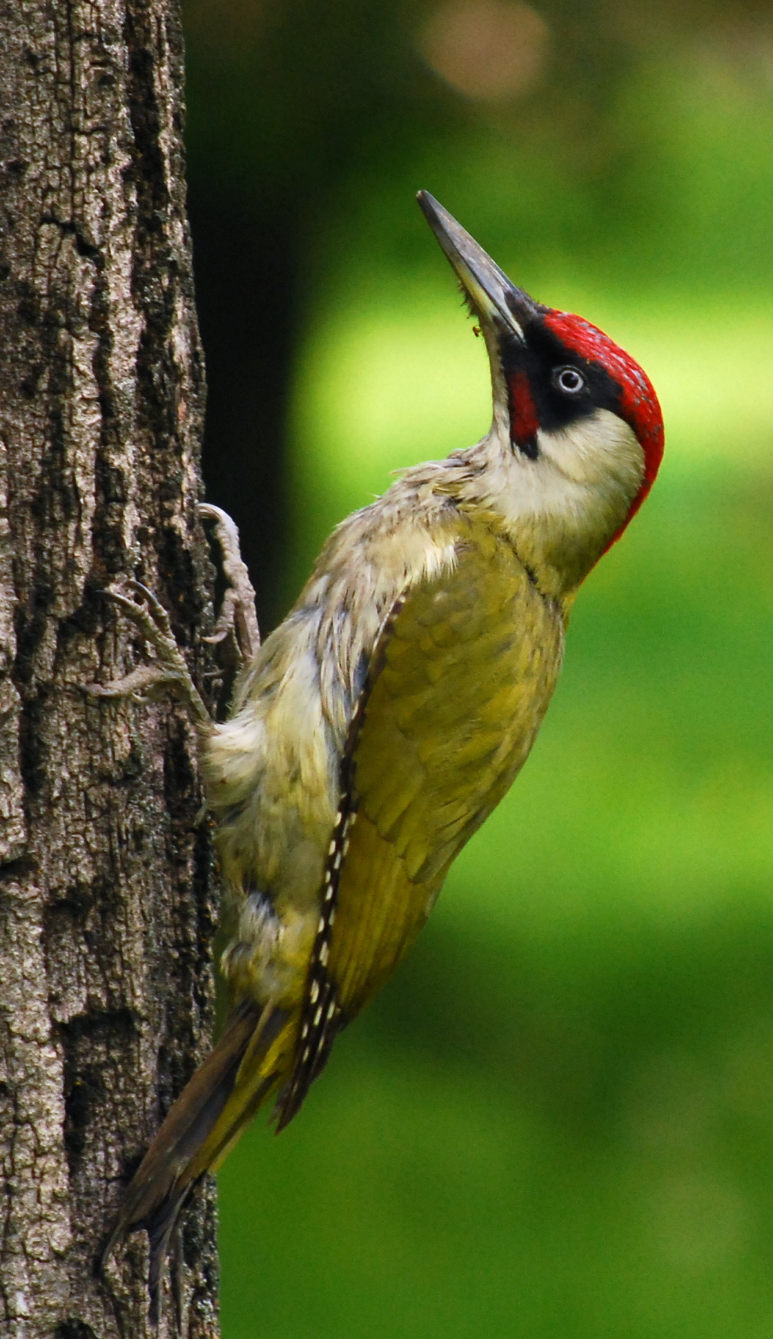 A green woodpecker (picus viridis) photographed in Carol Park, Bucharest, Romania